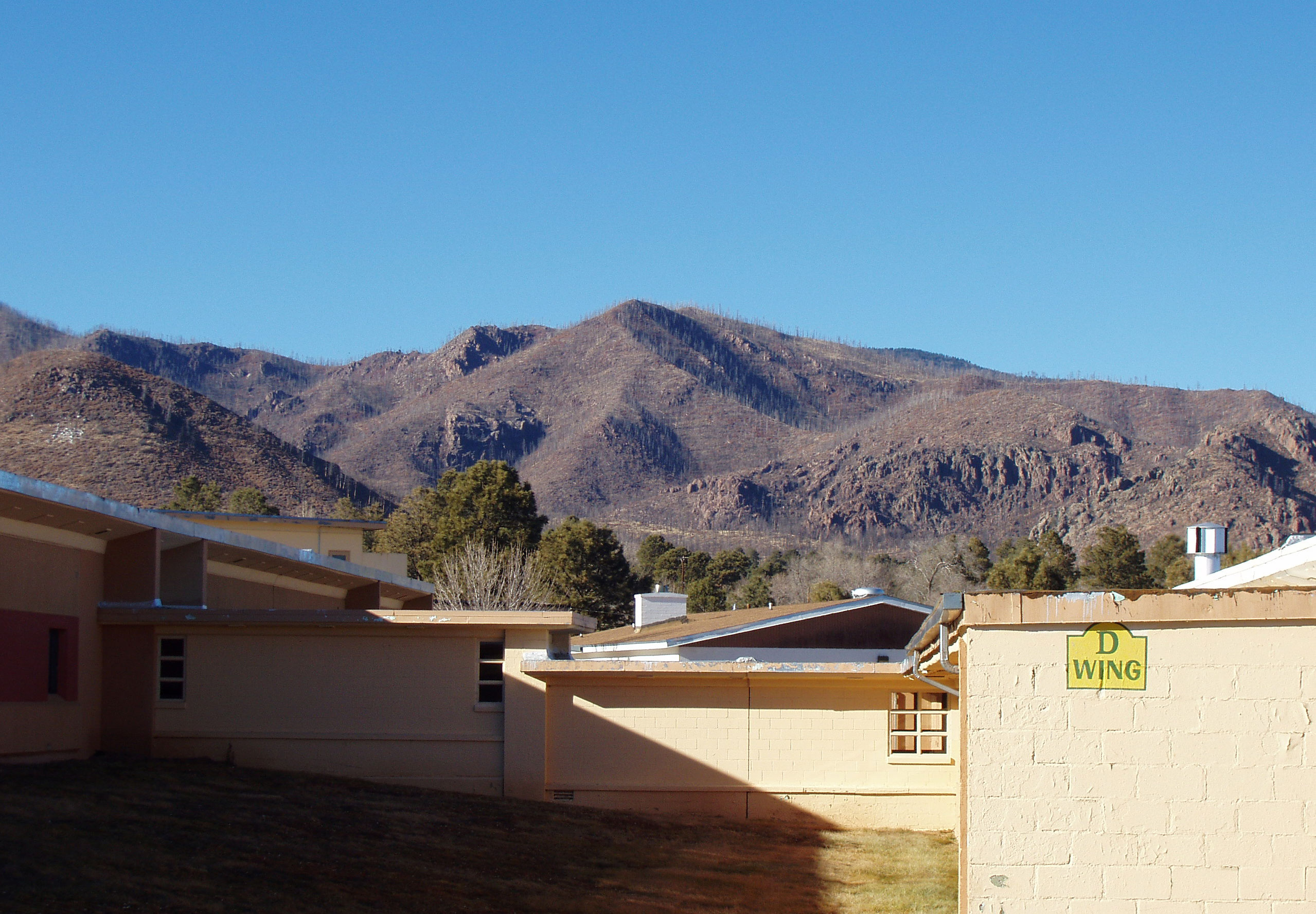 A view of the Mountains above D-Wing at Los Alamos High School